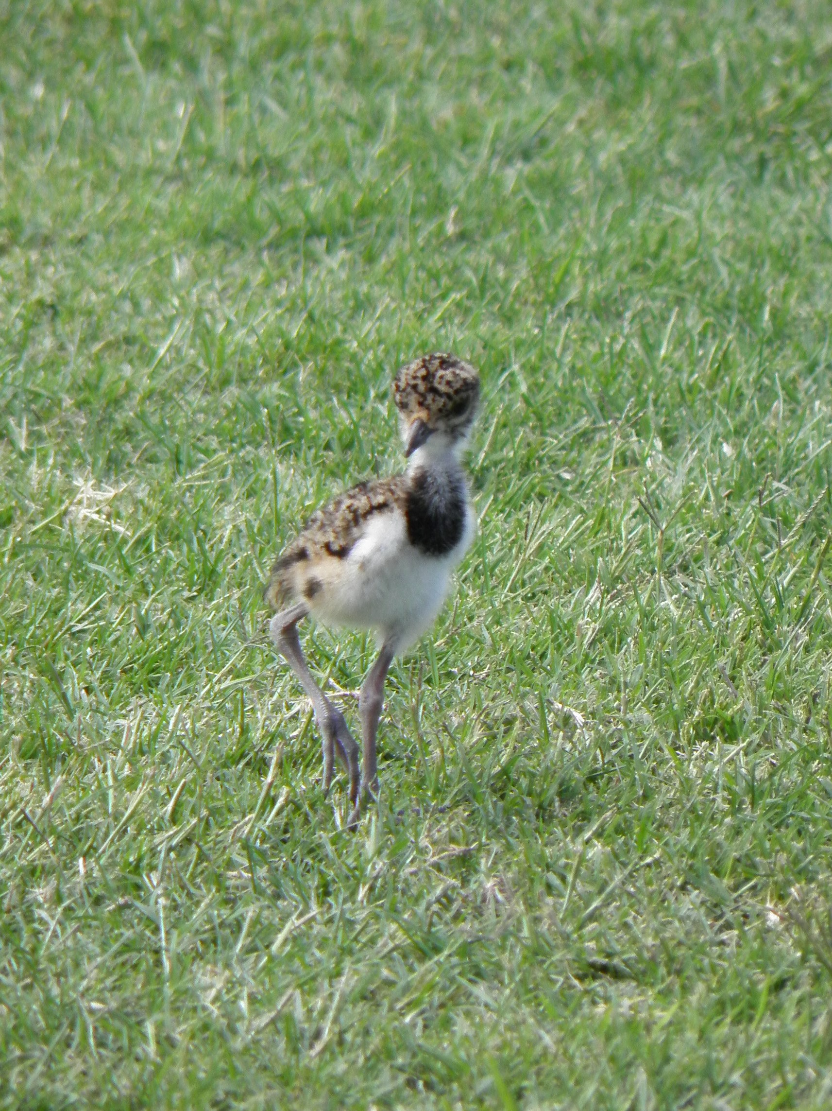 Four day old southern lapwing chick